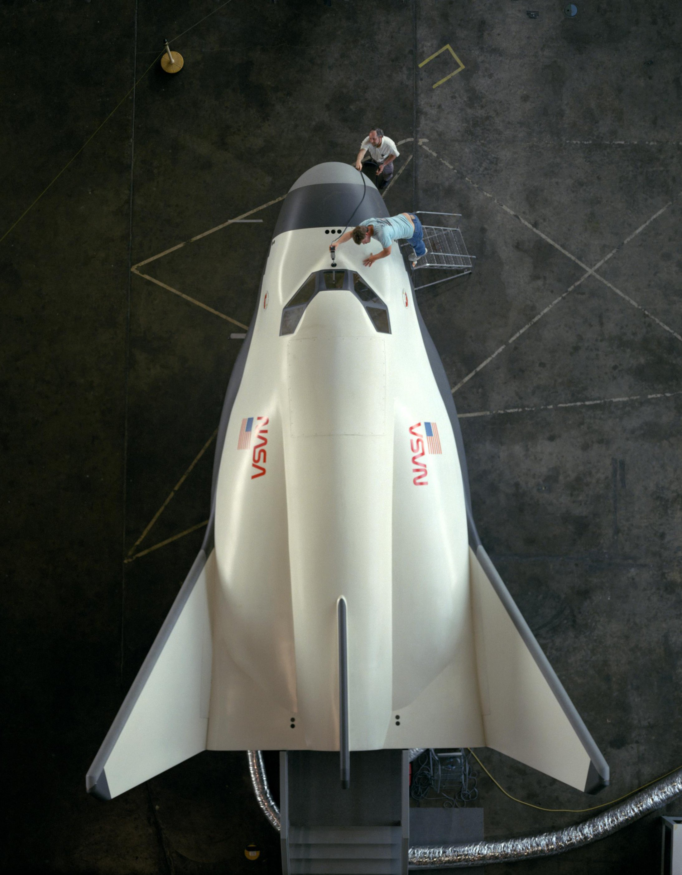 Top view of Langley HL-20 Lifting Body. Photograph and caption published in Winds of Change, 75th Anniversary NASA publication (page viii), by James Schultz.